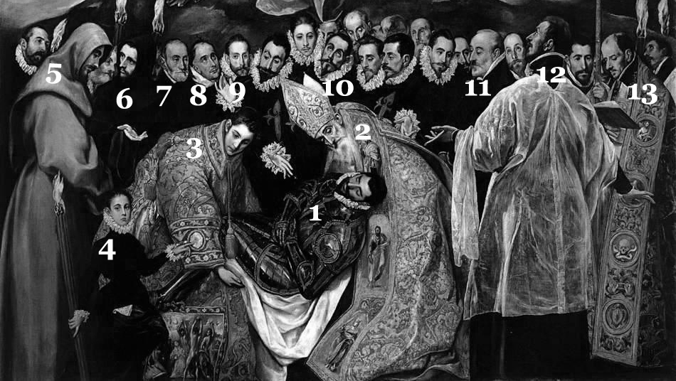 == Description Detalle del cuadro El Enterramiento del conde de Orgaz del Greco de la Iglesia de Santoi Tomé de Toledo Datebetween 1586 and 1588SourceEl_Greco_-_The_Burial_of_the_Count_of_Orgaz.JPGAuthor El Greco (1541–1614) Alternative namesbirth name: Domenikos Theotokópoulos